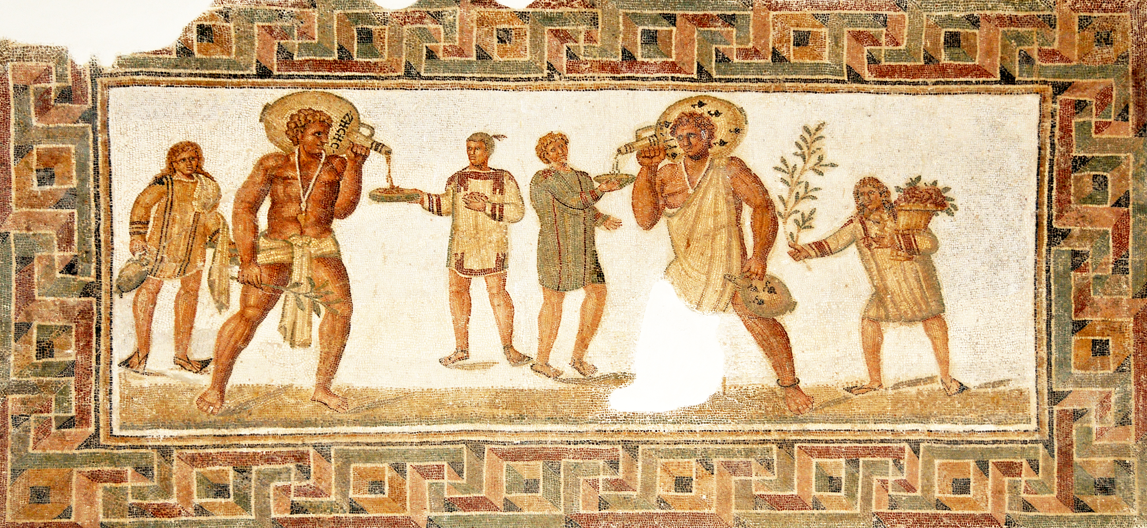 Mosaic floor with slaves serving at a banquet, found in Dougga (3rd century AD)